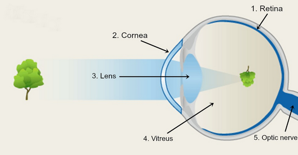 Image of irregular formation of latin names.